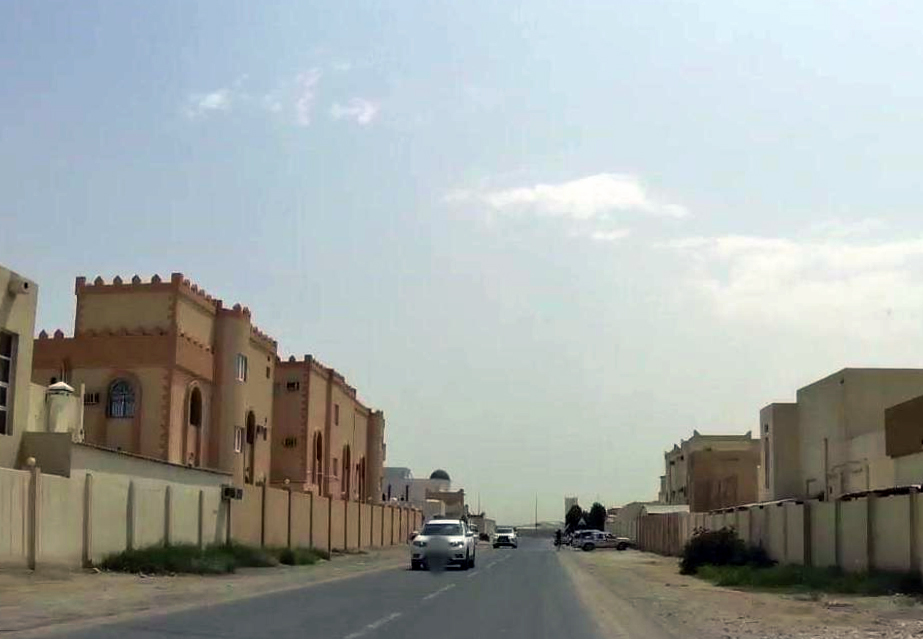 Umm Al Magareen Street in Bu Sidra district, Al Rayyan Municipality, Qatar.